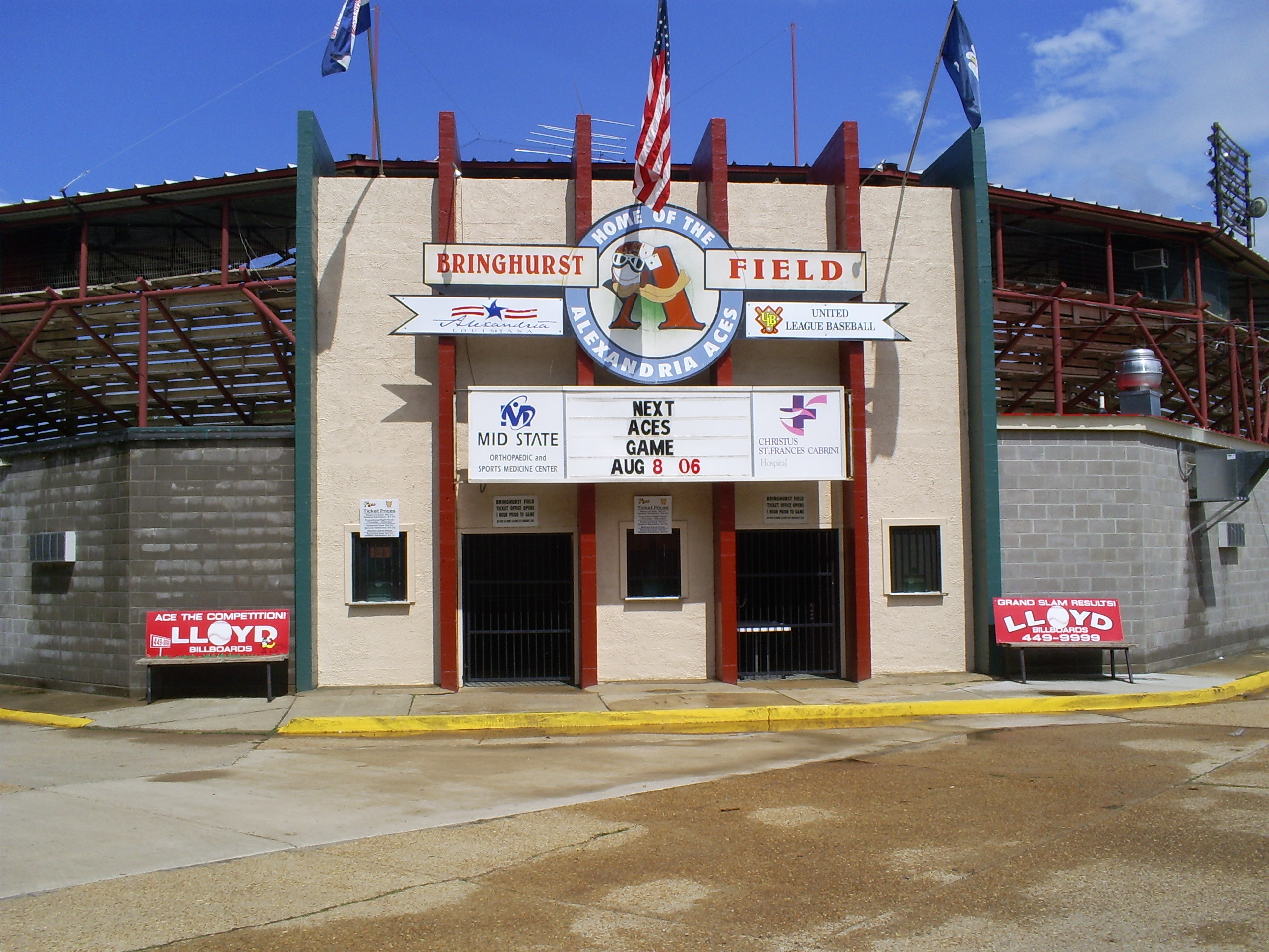 Bringhurst Stadium Entrance Alexandria, Louisiana.